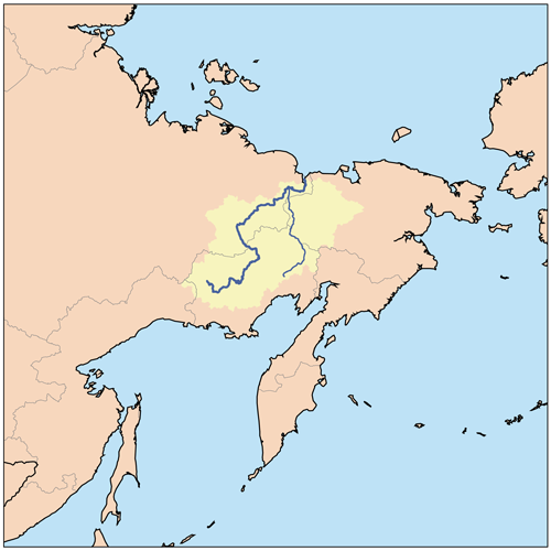 This is a map of the Kolyma River Watershed, based on USGS data.